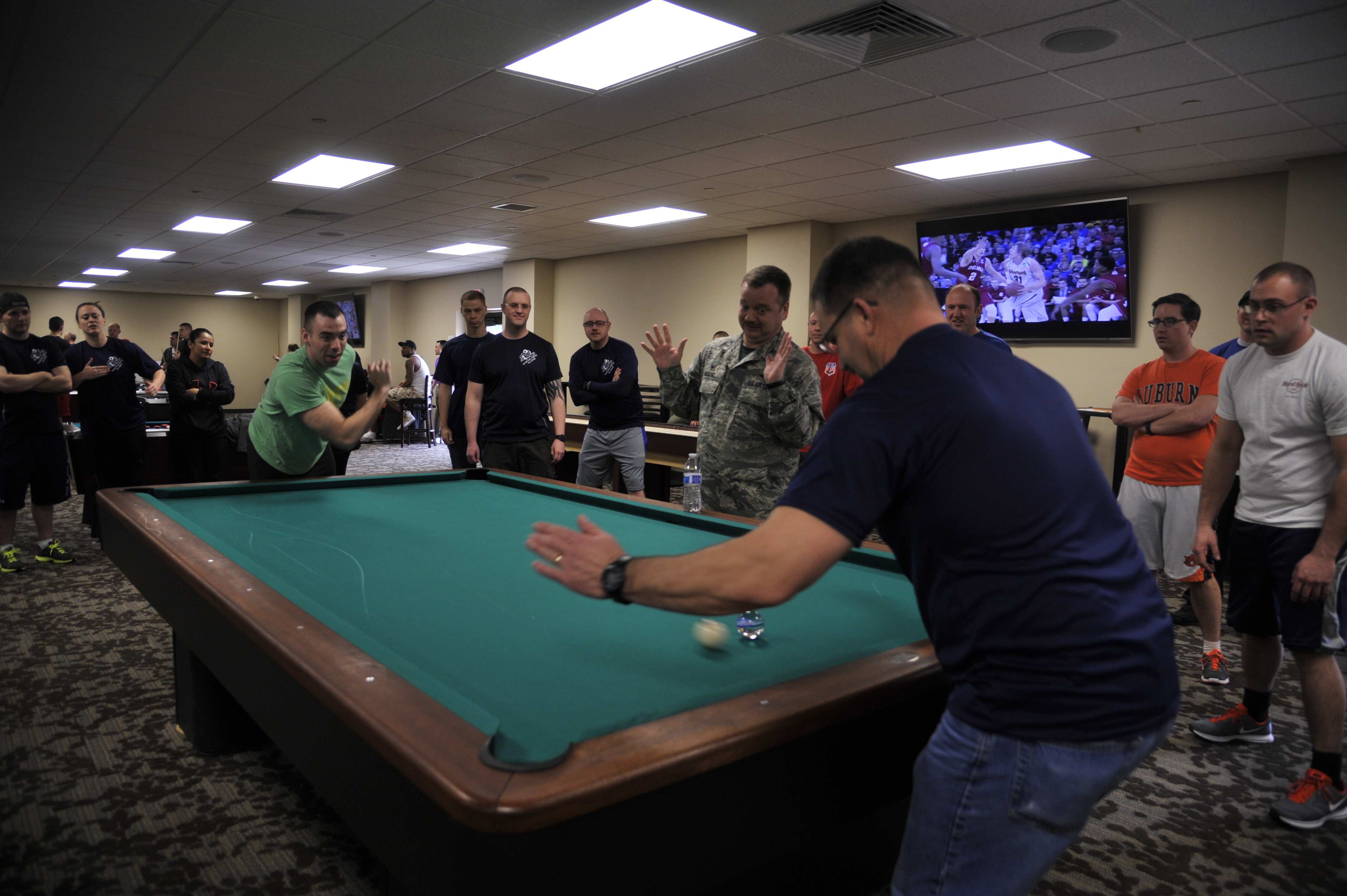 Team Fairchild members play "Crud" during Winter Sports Day March 20, 2015, at the Red Morgan Center at Fairchild Air Force Base, Wash. Crud is a game based around billiards that is commonly played by military members and was one of many sports Airmen could sign up for. (U.S. Air Force photo/Airman 1st Class Taylor Bourgeous)